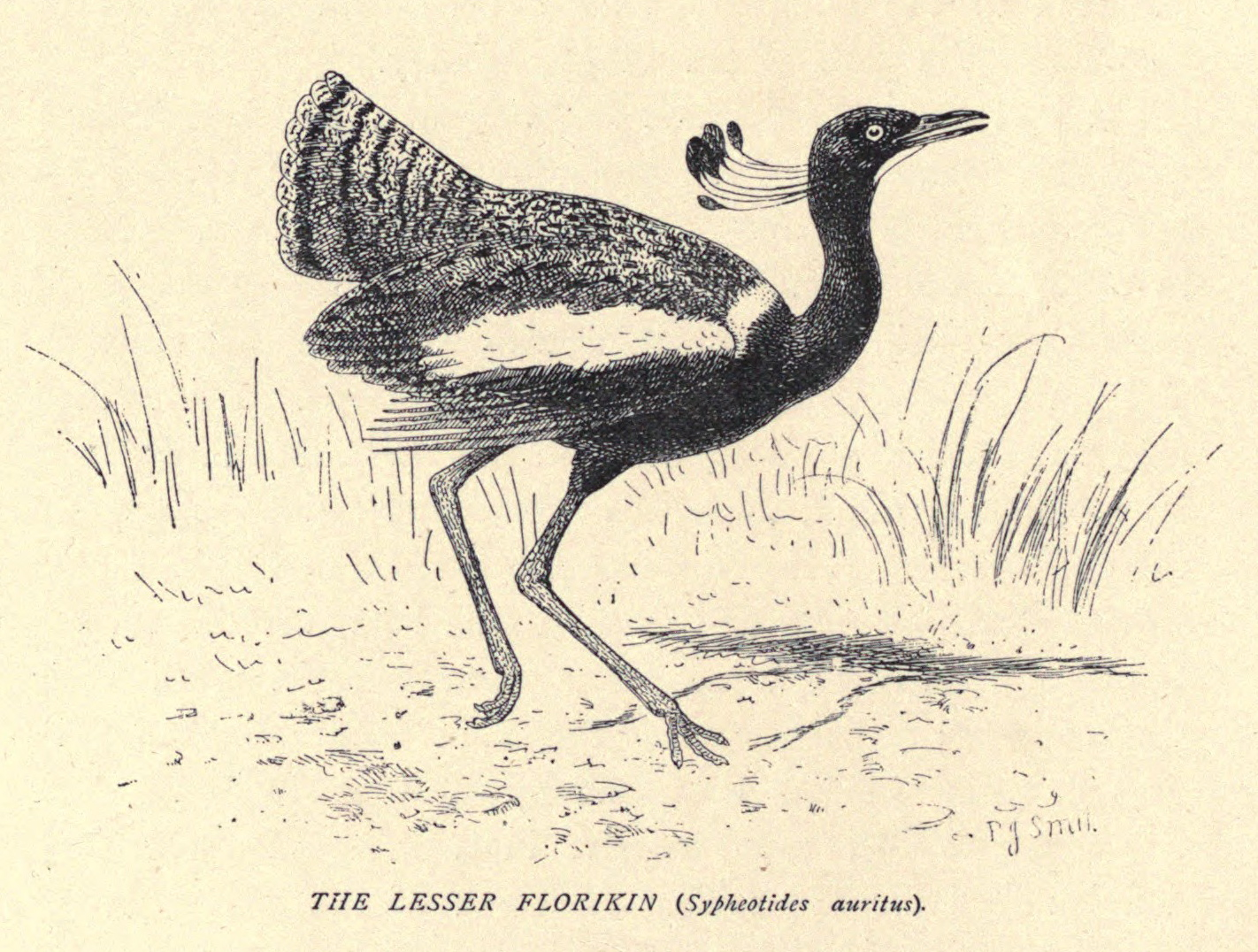 Douglas Hamilton, LesserFlorican...36